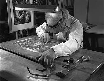 Chaim Goldberg creating a hand-engraved image on a copper plate. Photo by Shalom Goldberg